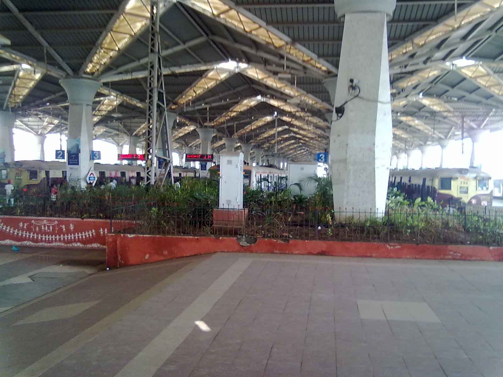 Platforms 2,3 and 4 of Panvel Railway station. Suburban trains are waiting for departure.